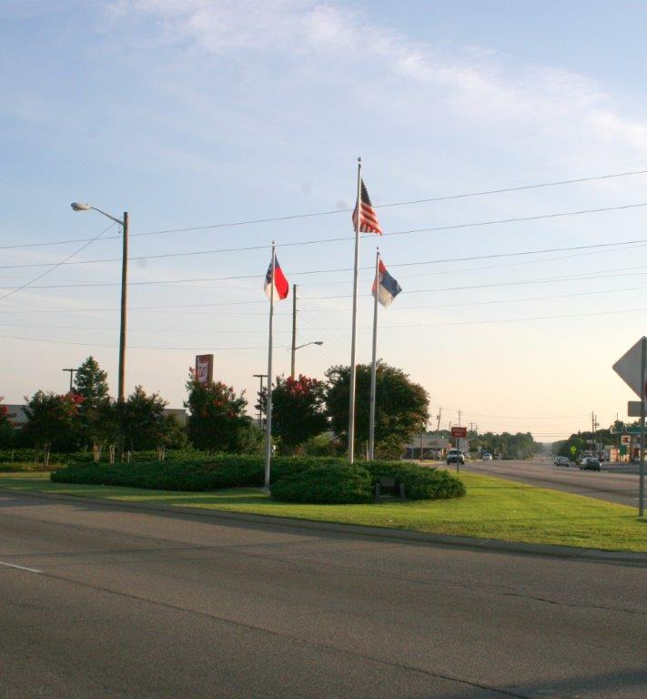 The award winning "gateway" of Spring Lake resting at the intersection of Hwy 87 & 210